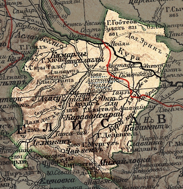 A highlighted map from 1903 of the Kazakh uyezd within the Elisabethpol governorate.